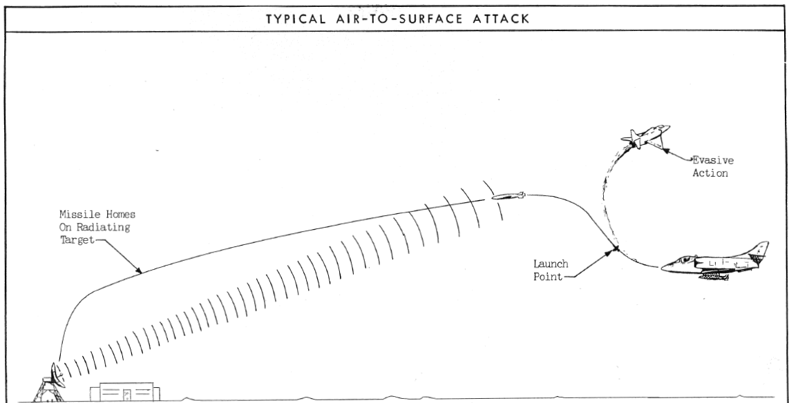 Drawing of an attack on a radar site by a Douglas A4D-2 Skyhawk using a Temco ASM-N-8 Corvus anti-radiation missile. The ASM-N-8 was developed for the U.S. Navy, 1955-1960.